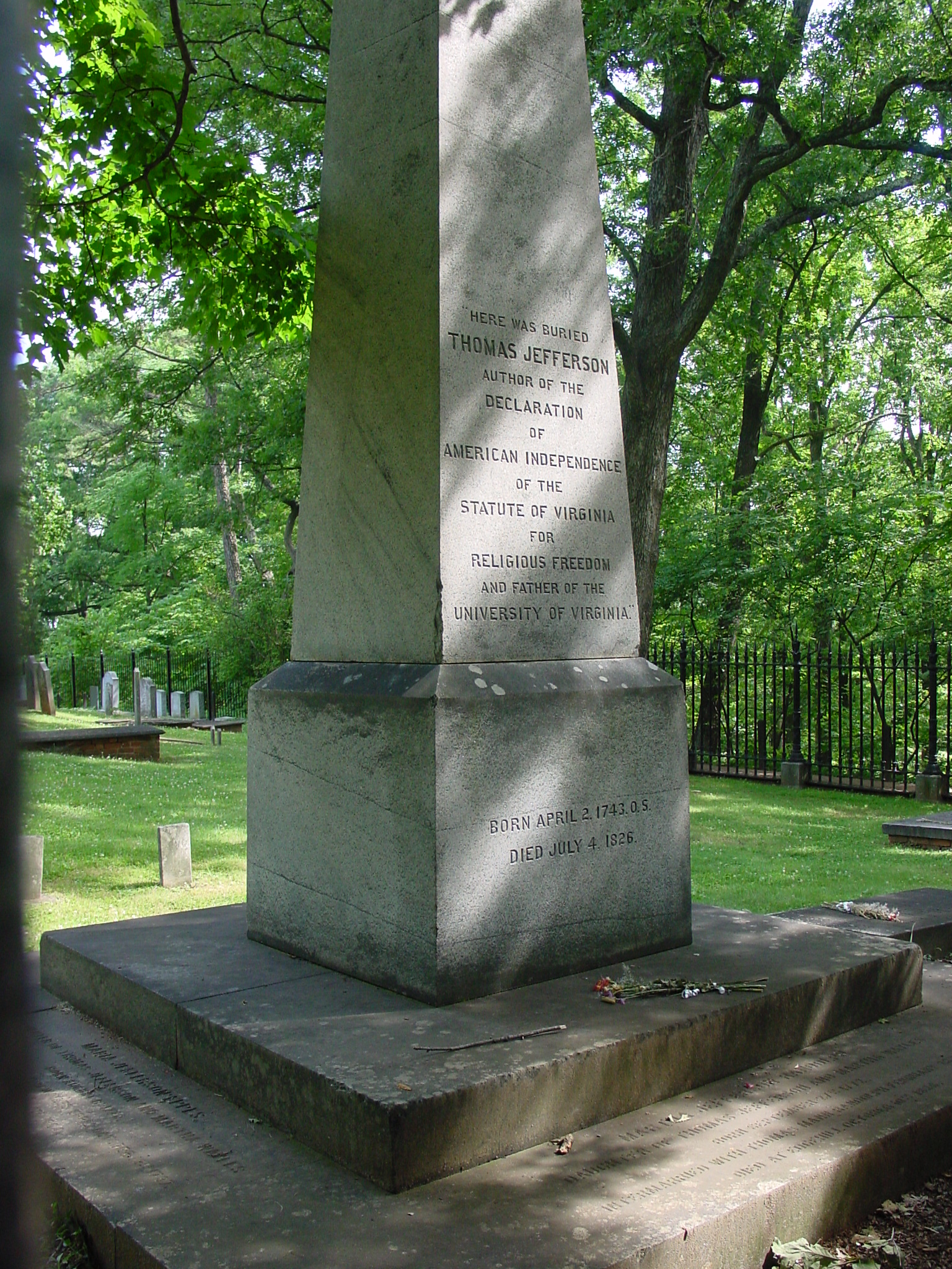 This photograph is of the grave site of Thomas Jefferson, which is located at Monticello in Charlottesville, Virginia.